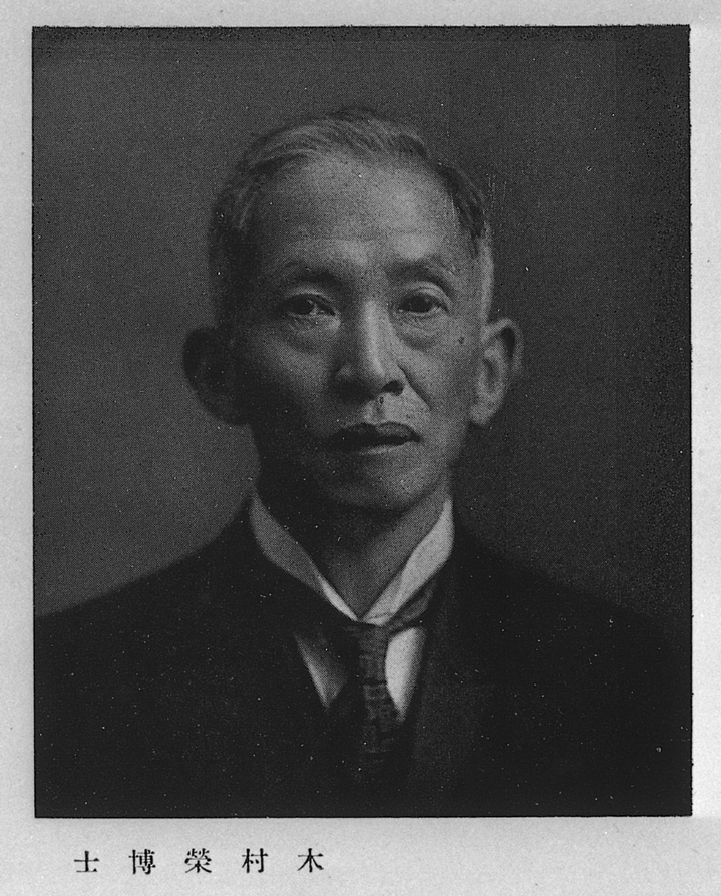 Portrait of Kimura Hisashi (木村栄, 1870 – 1943)